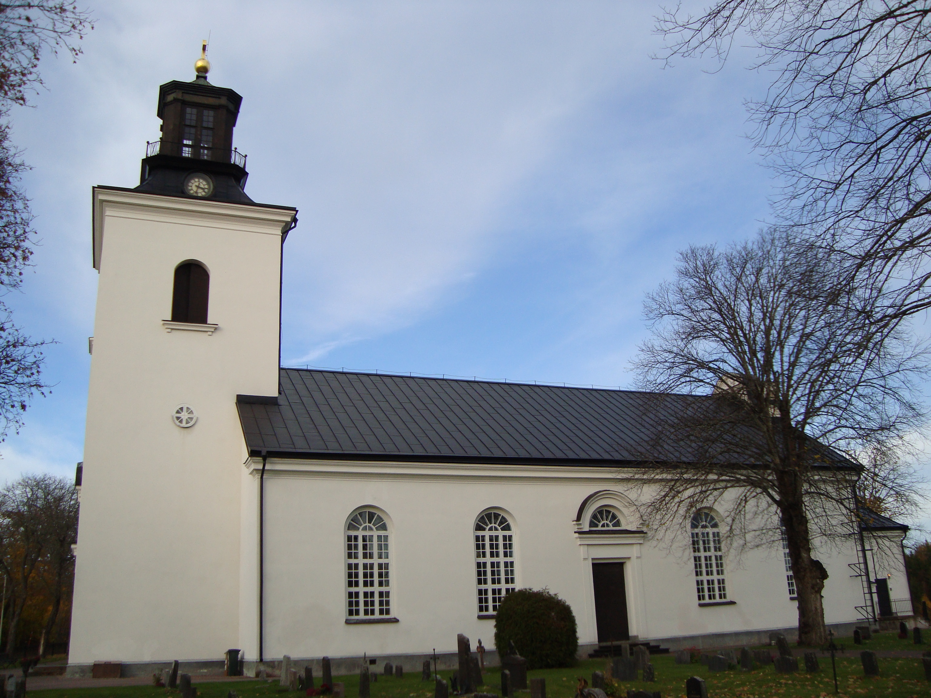 Church of Karbenning, Norberg municipality, Sweden